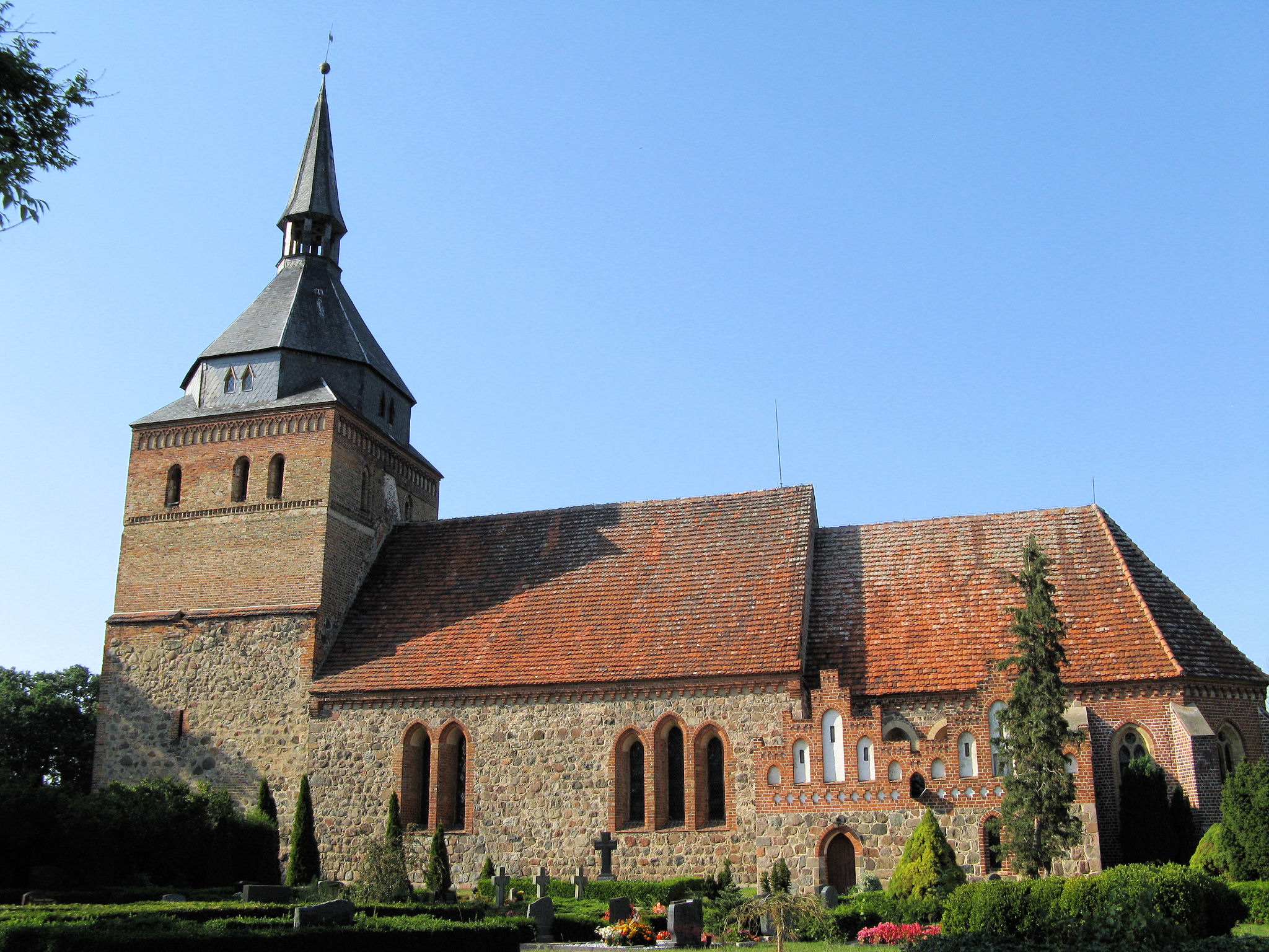 Church in Lüssow, disctrict Güstrow, Mecklenburg-Vorpommern, Germany